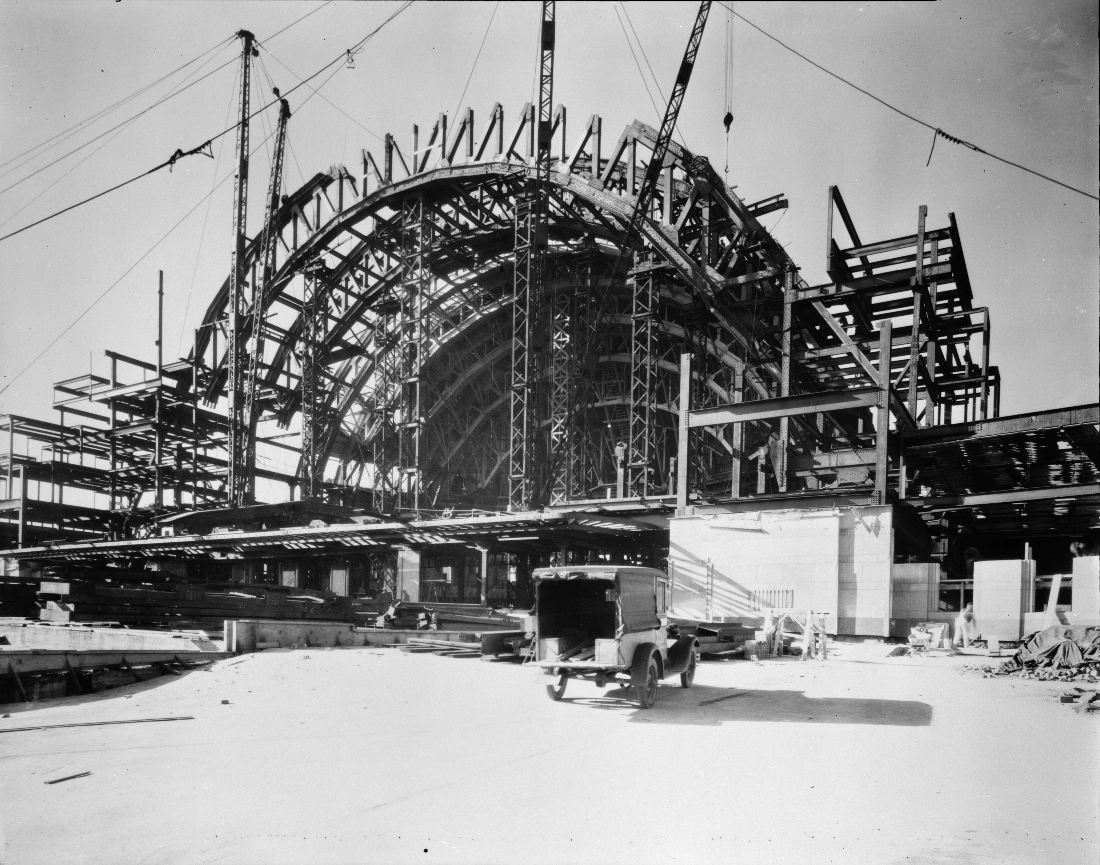 Cropped border jpg copy of File:Photocopy of photograph c. 1931, photographer unknown STRUCTURAL FRAMING OF DOME, LOOKING SOUTHWEST DURING CONSTRUCTION - Cincinnati Union Terminal, 1301 Western Avenue, HABS OHIO,31-CINT,29-15.tif.